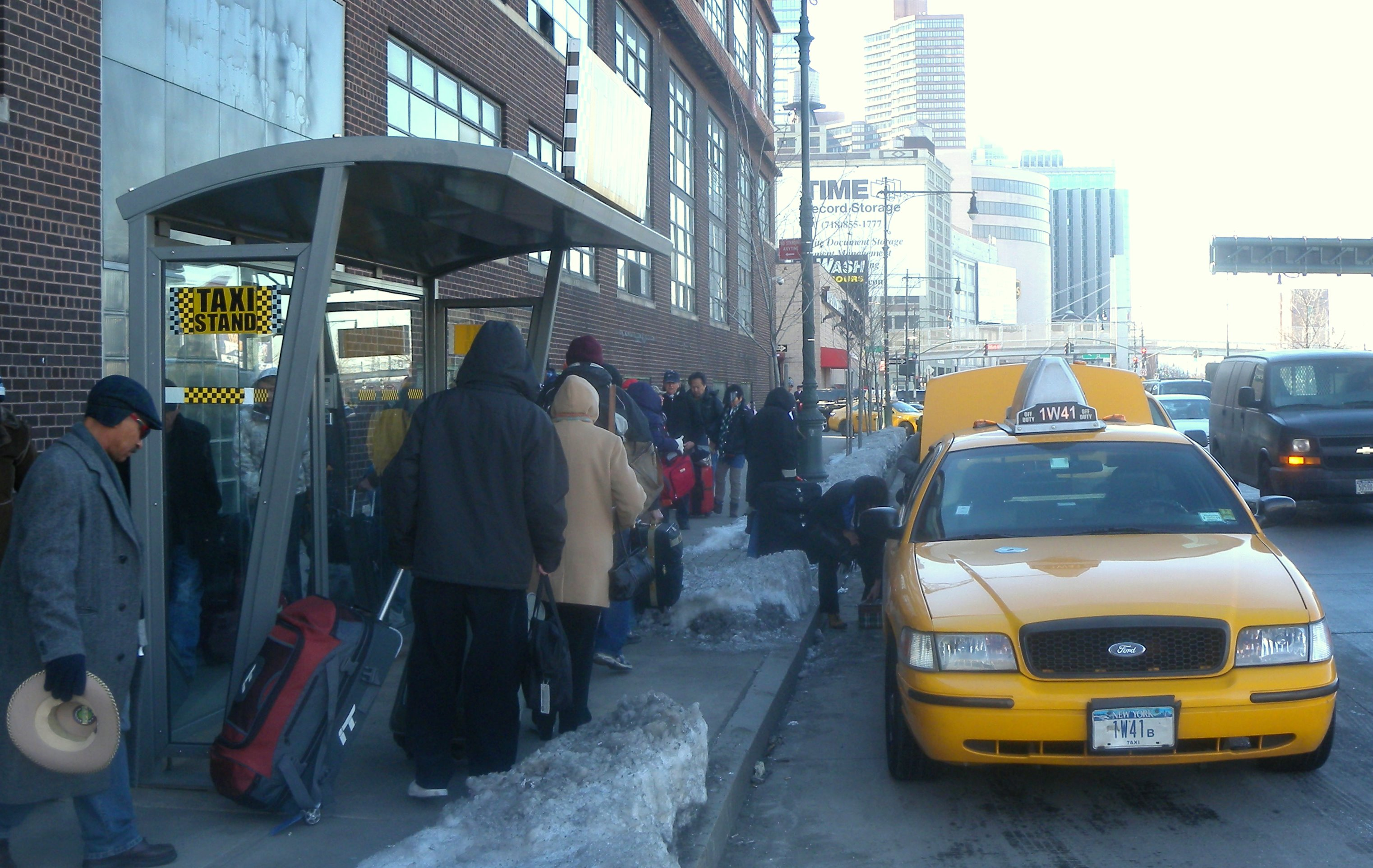 Looking south as passengers from Norwegian Gem get into taxis.